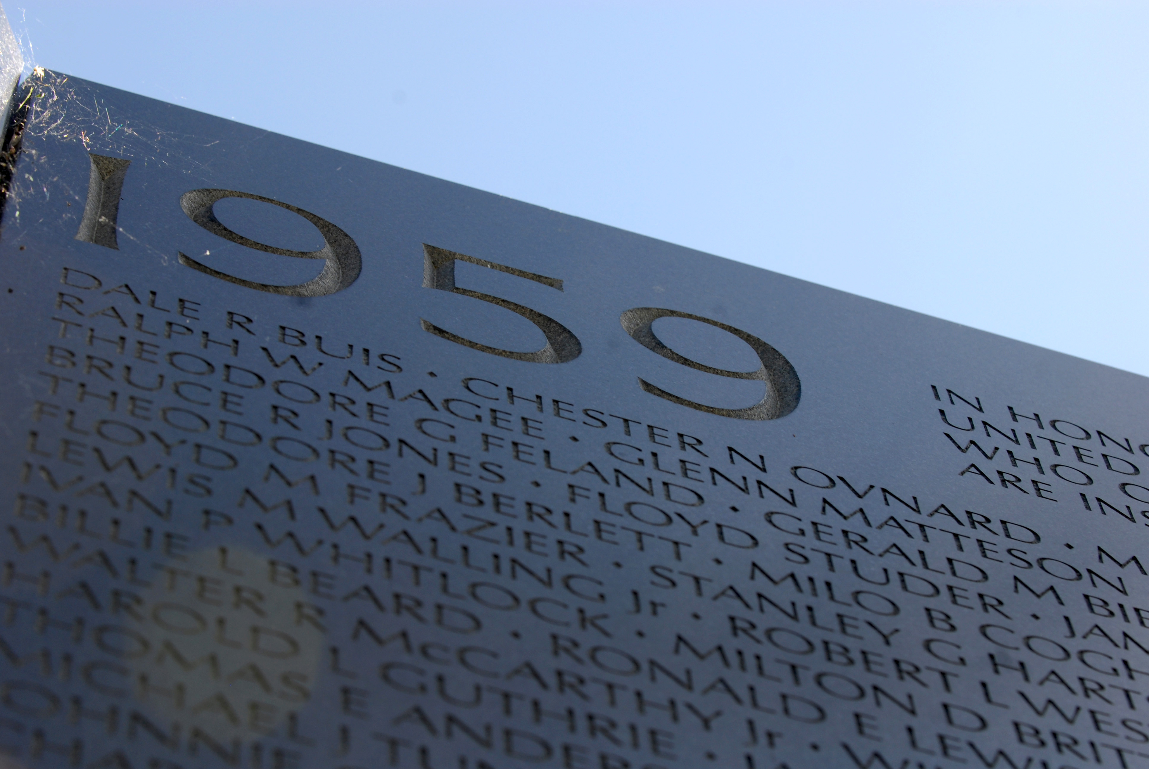 The names of U.S. Army Master Sgt. Chester Ovnand and Maj. Dale Buis are inscribed on Panel 1 E of the Vietnam War Memorial Wall. They were the first two U.S. service members killed in the Vietnam War, and their sacrifice was honored in Washington, D.C., July 8, 2009, in a ceremony commemorating the 50th Anniversary of their deaths.